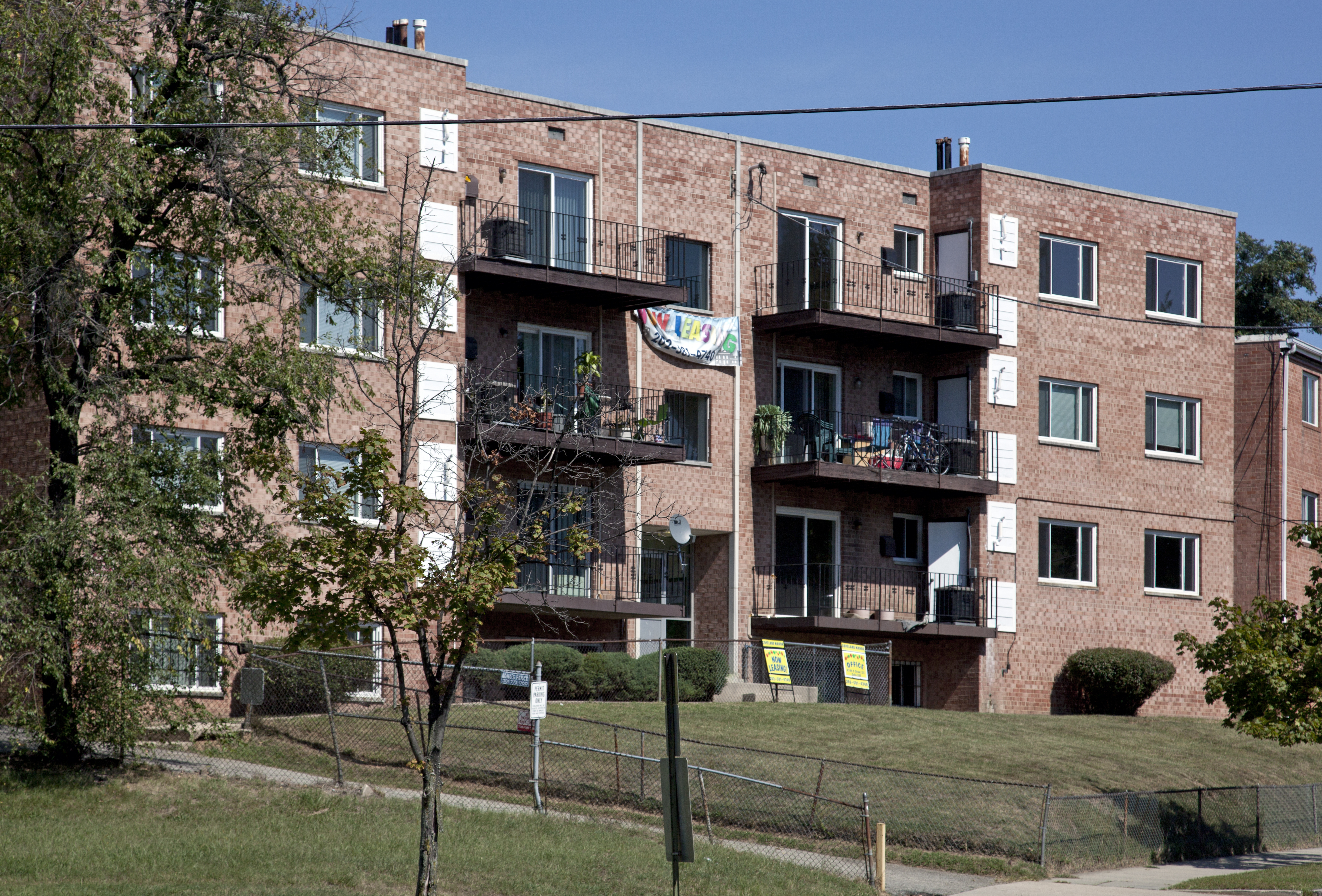 Copeland Manor cooperative apartment building located at 4740 C Street SE in Washington, D.C., in 2010.